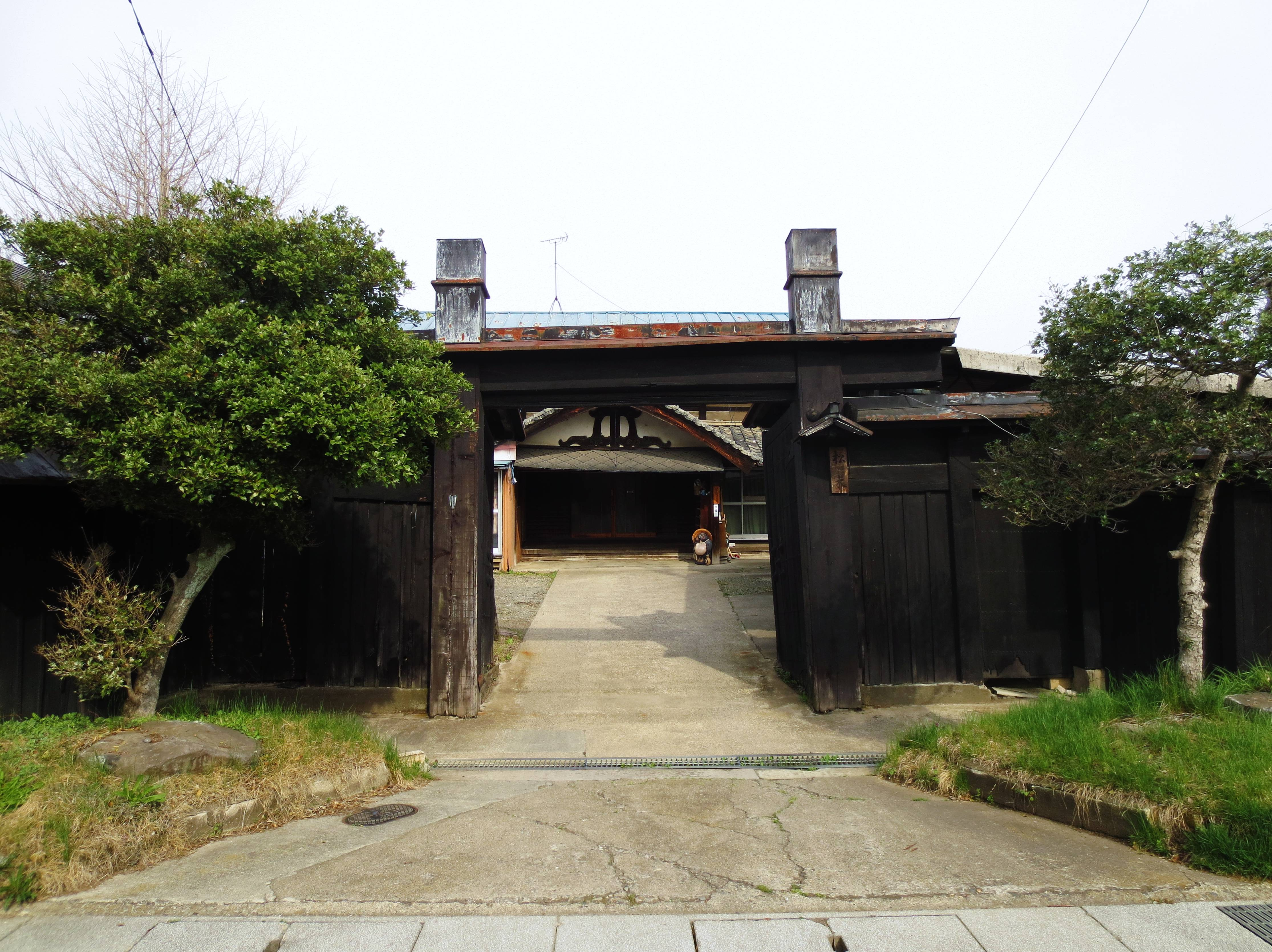 Inariyama-juku Honjin.